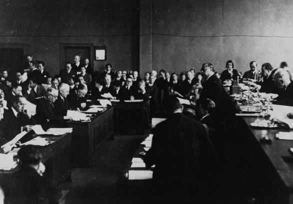 Chinese delegate addresses the League of Nations after the Mukden Incident, 1932.